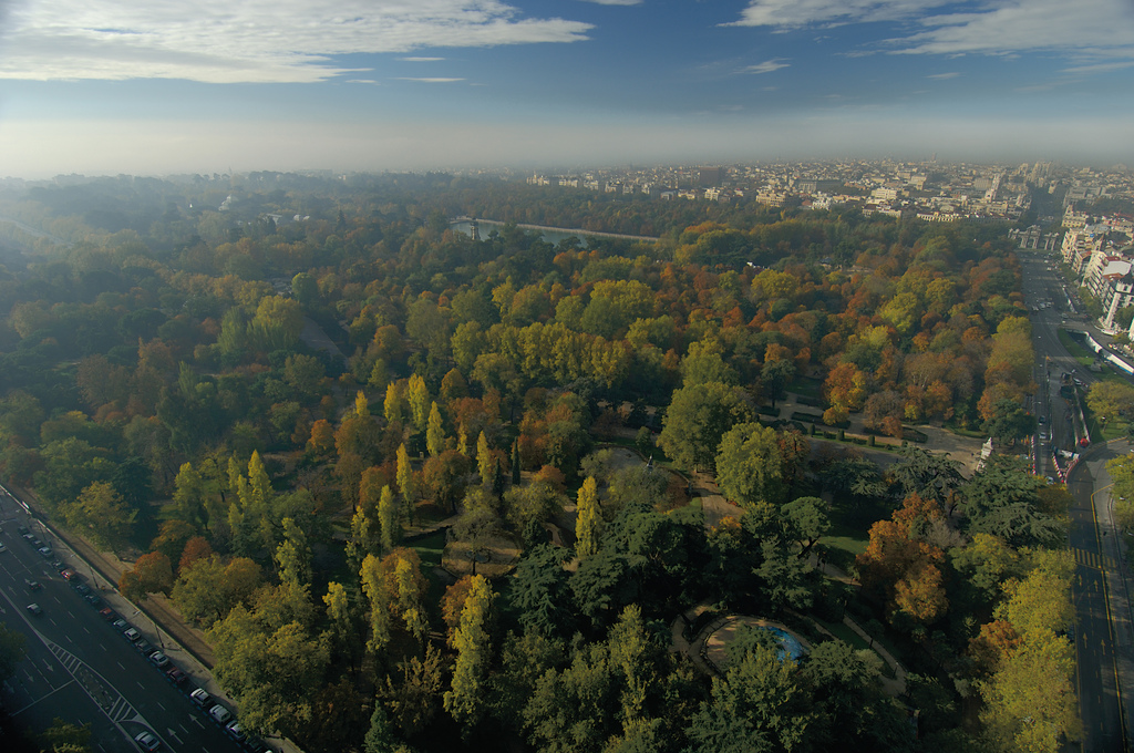 Madrid Retiro Park This photograph can be used for publications, including this copyright statement: “©PromoMadrid, author Max Alexander”. Esta fotografía puede usarse en publicaciones, incluyendo la declaración “©PromoMadrid, autor Max Alexander”.